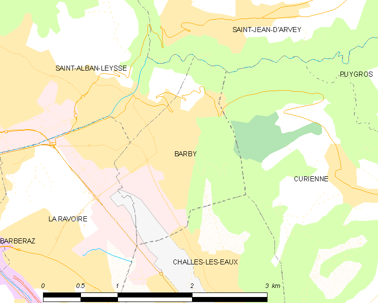 Map of French municipality